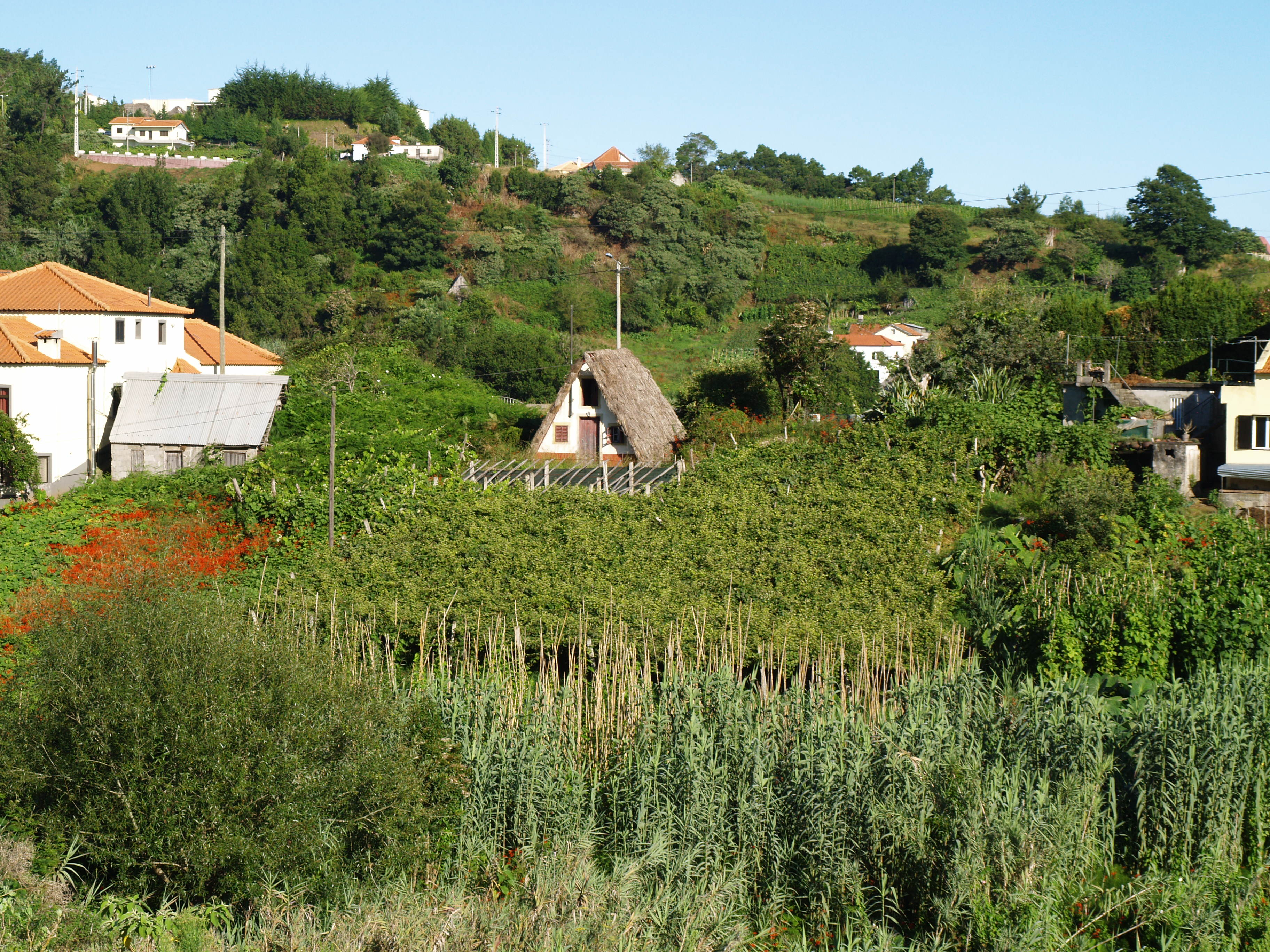 wine fields near town Santana, Madeira.